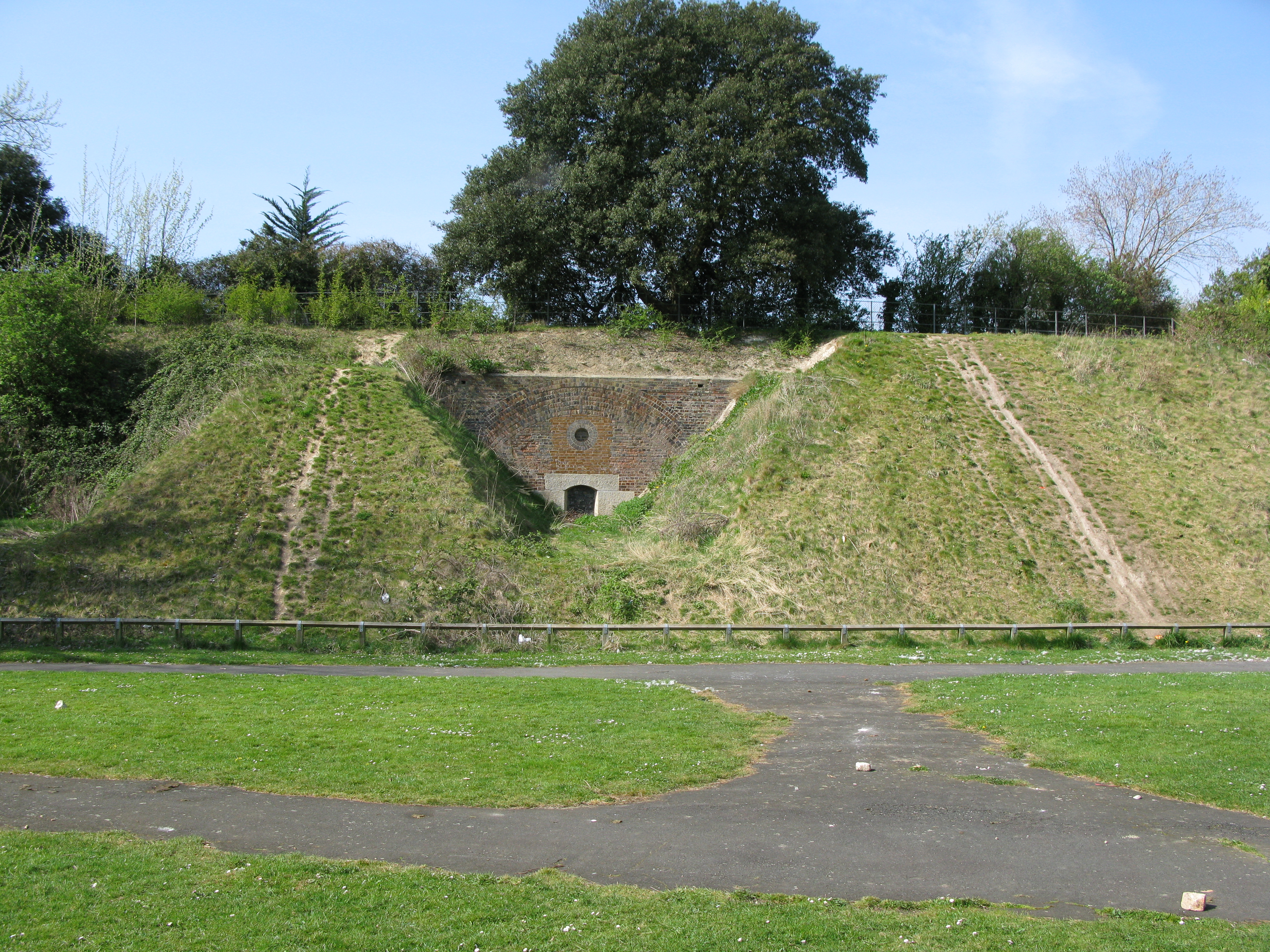 Photo of one of the emplacements in the western bastion of the hilsea lines.